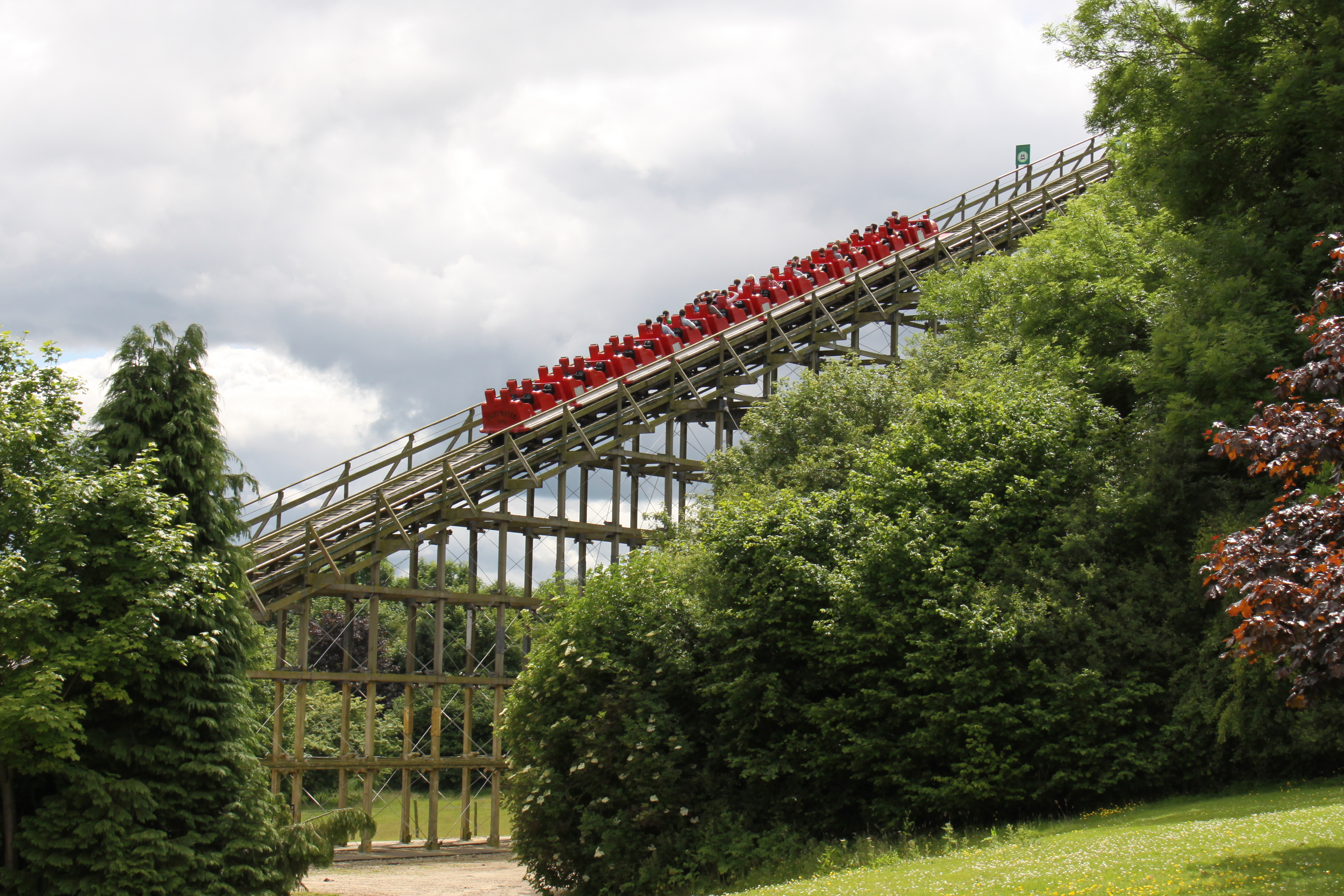 Train of roller coaster The Ultimate at Lightwater Valley